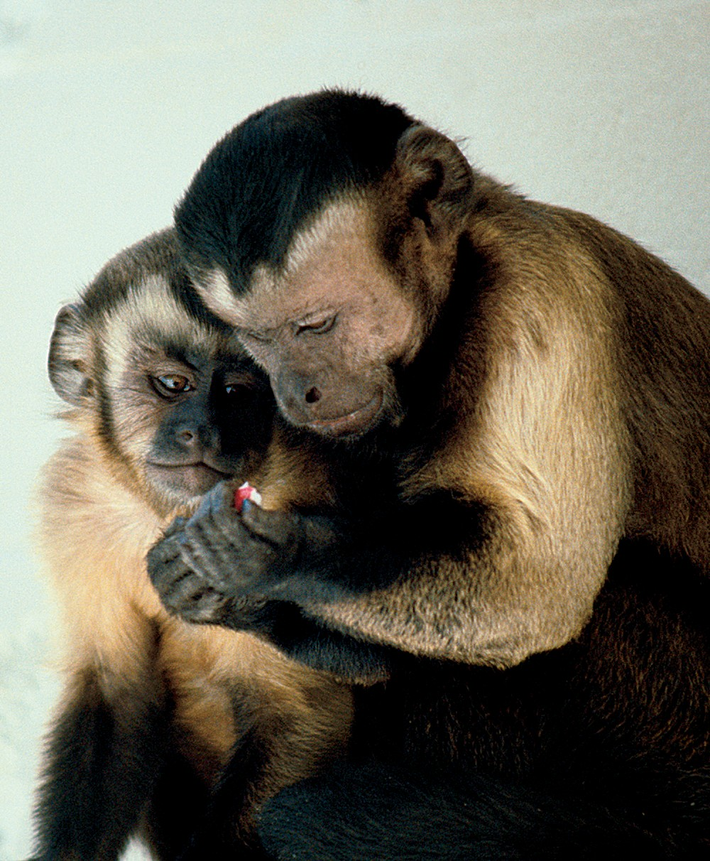 Cebus apella group. Capuchin Monkeys Sharing